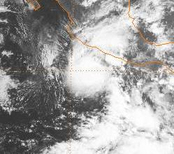 Tropical Storm Agatha as a tropical storm on June 2, 1992